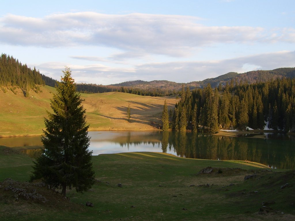 The view on the Ponor Glade, the only example of polje in Padis Plateau, Romania.